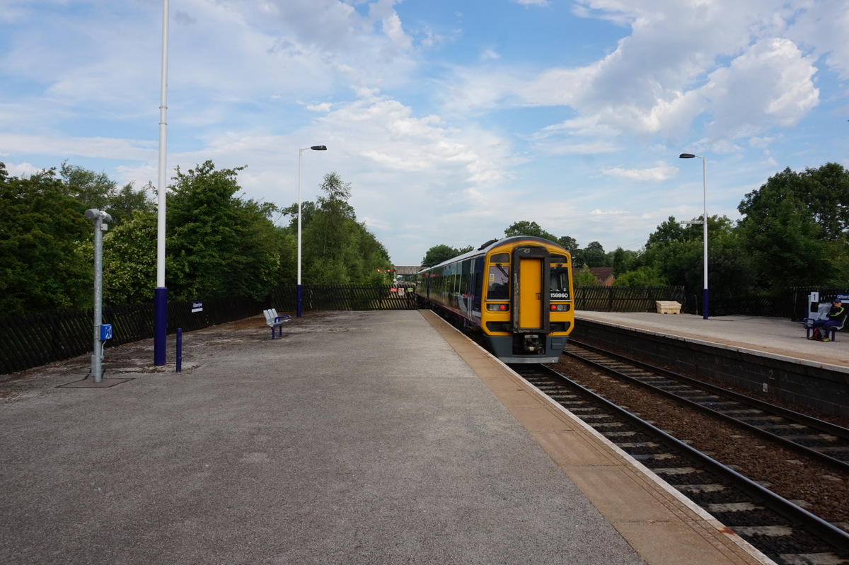 Gilberdyke Train Station, Gilberdyke, East Riding of Yorkshire, England.